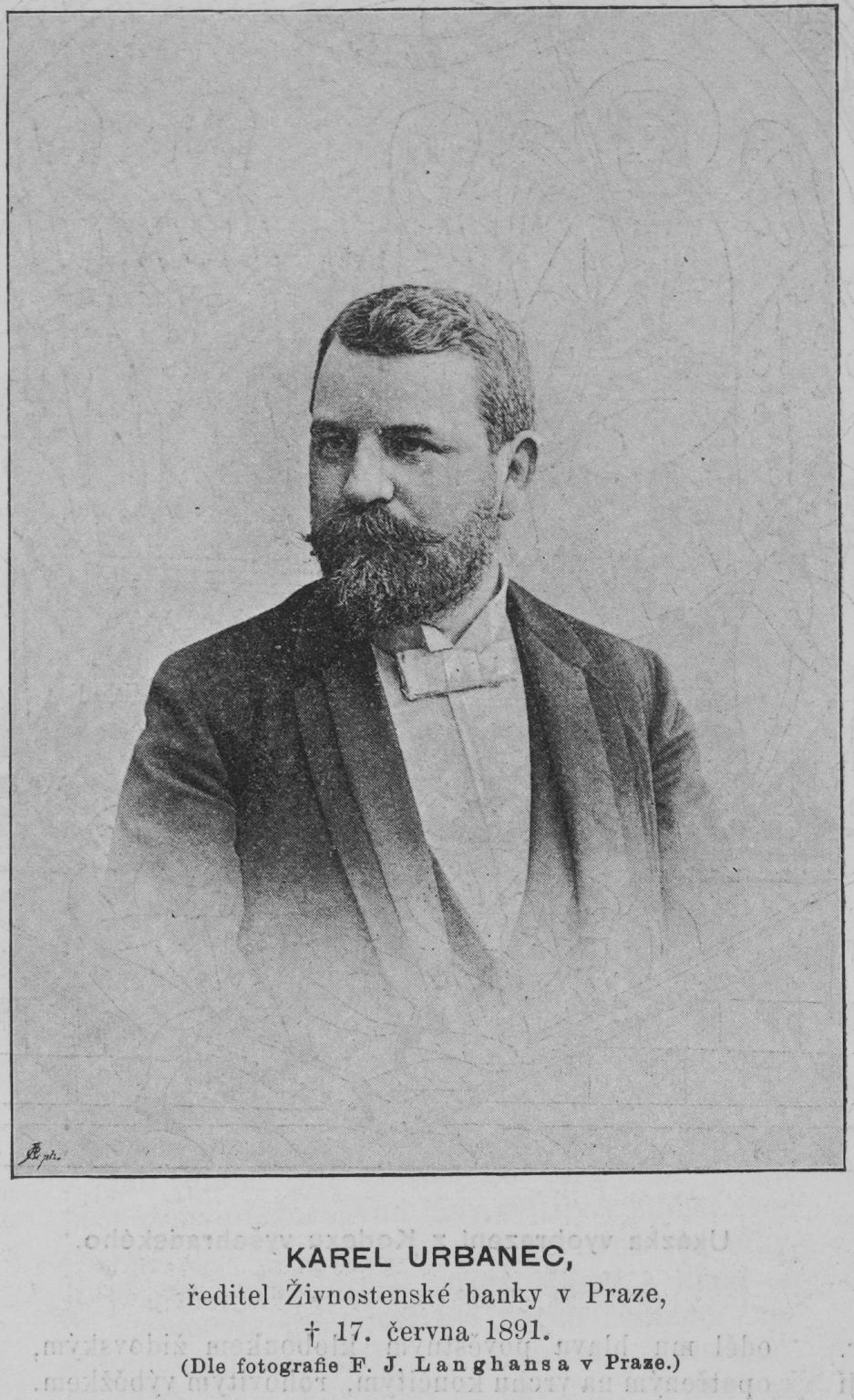 Portrait of Karel Urbanec (1845 - 1891), Czech bank director